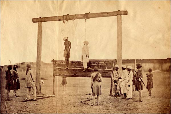 The hanging of two participants in the Indian Rebellion of 1857. It is not known where Felice Beato took this picture in 1858.